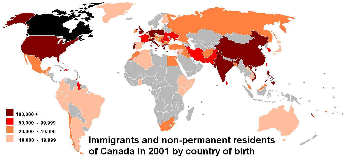 Country of birth of "immigrants and non-permanent residents" in Canada in 2001 Census